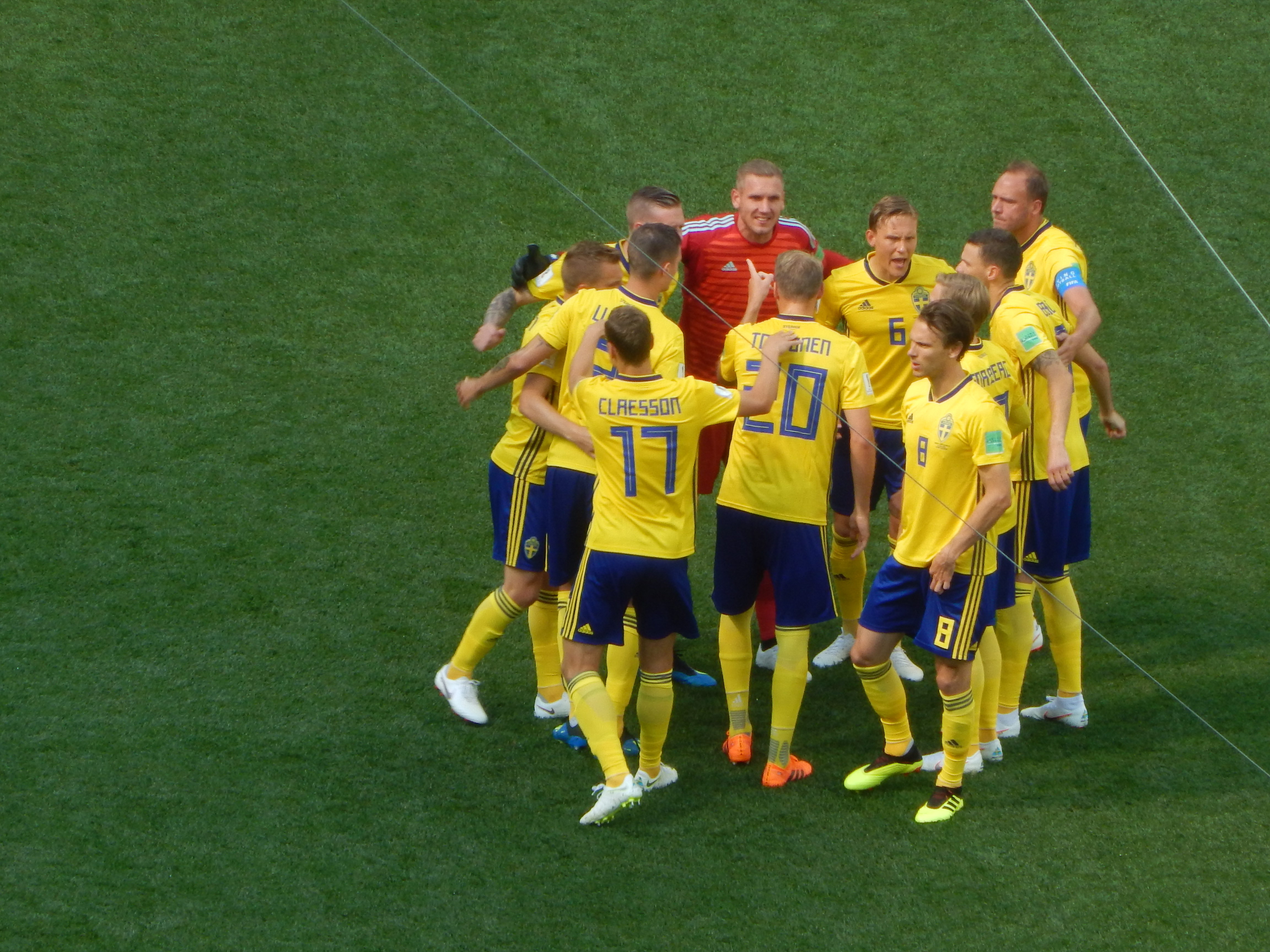 2018 FIFA World Cup - Group F - KOR v SWE